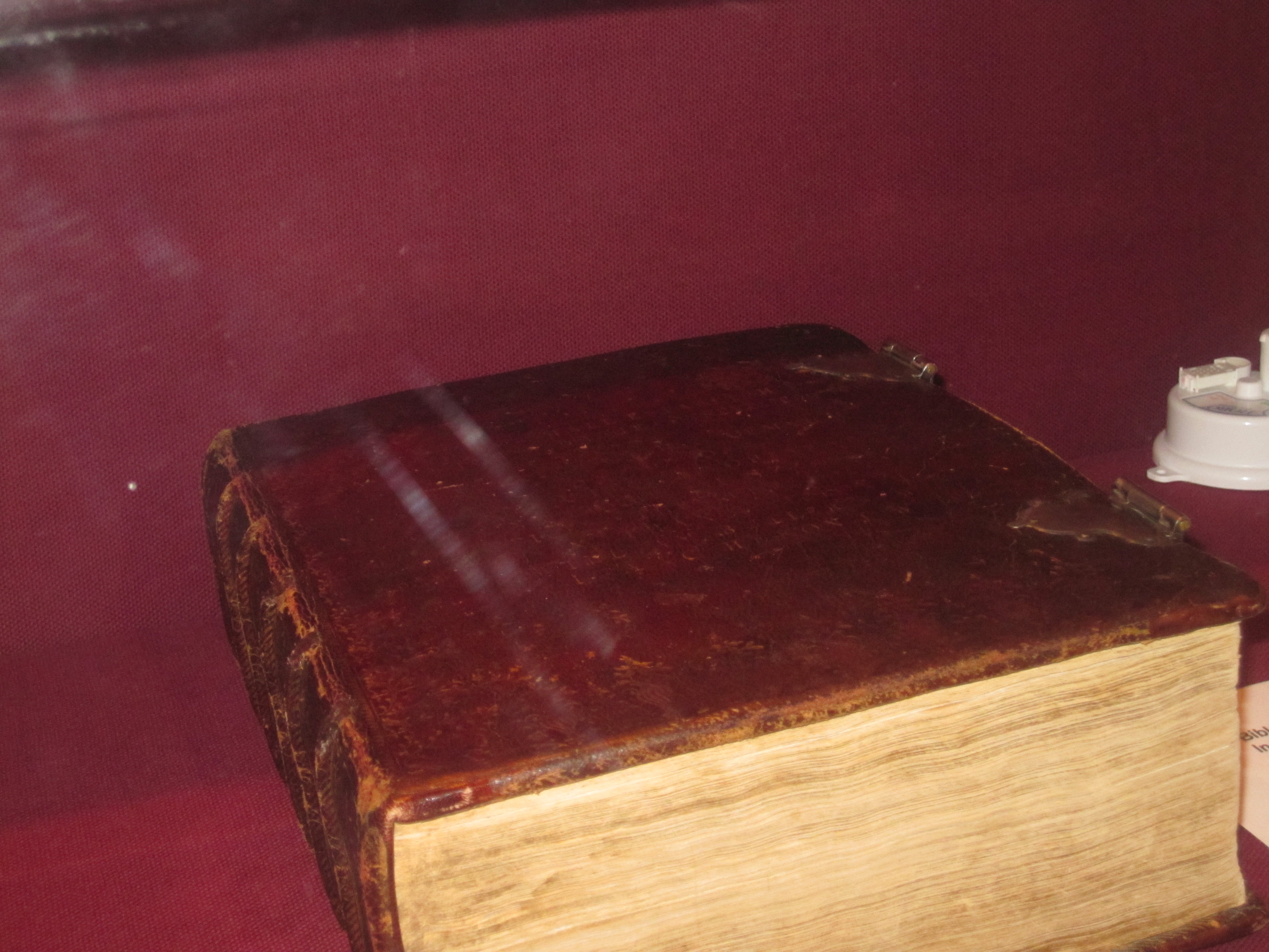 The Bible on which George Washington was inaugurated.